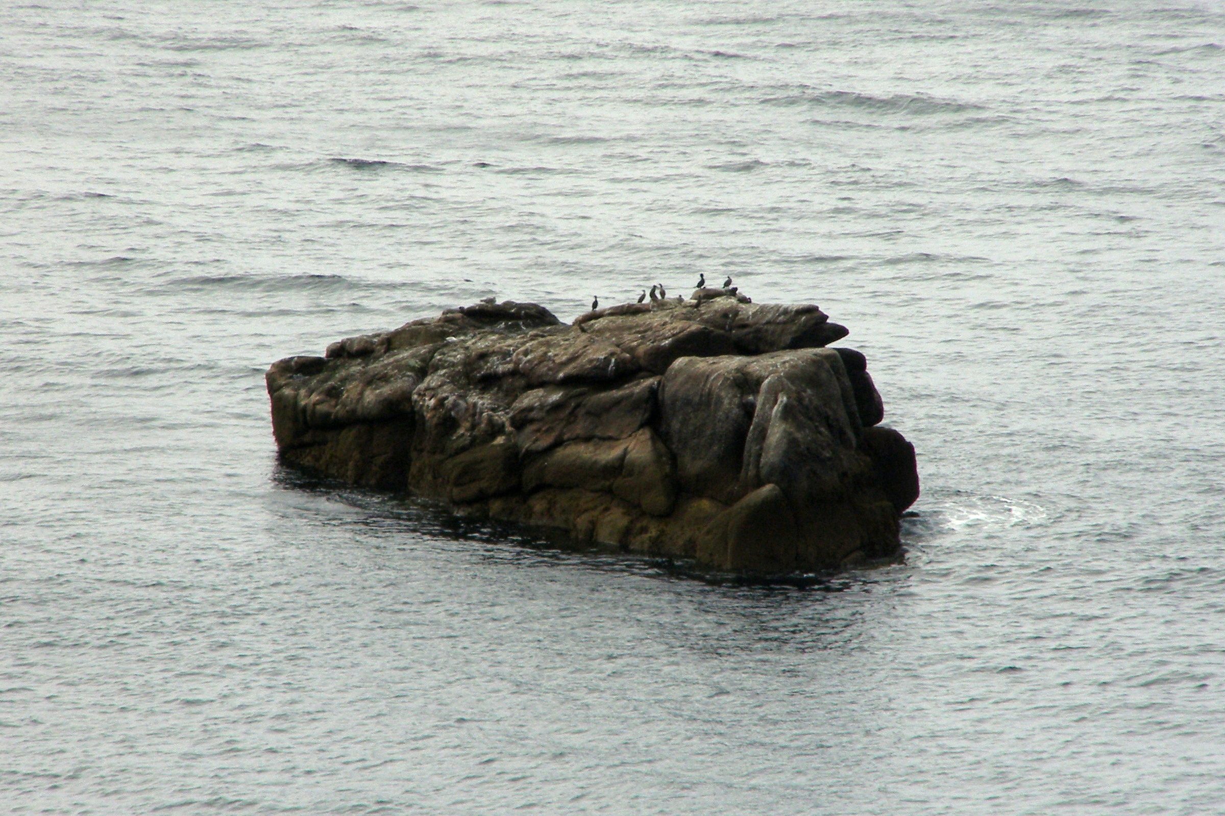 Seghy Island from the coast path between Treryn Dinas and Cribba Head, Cornwall, U.K.